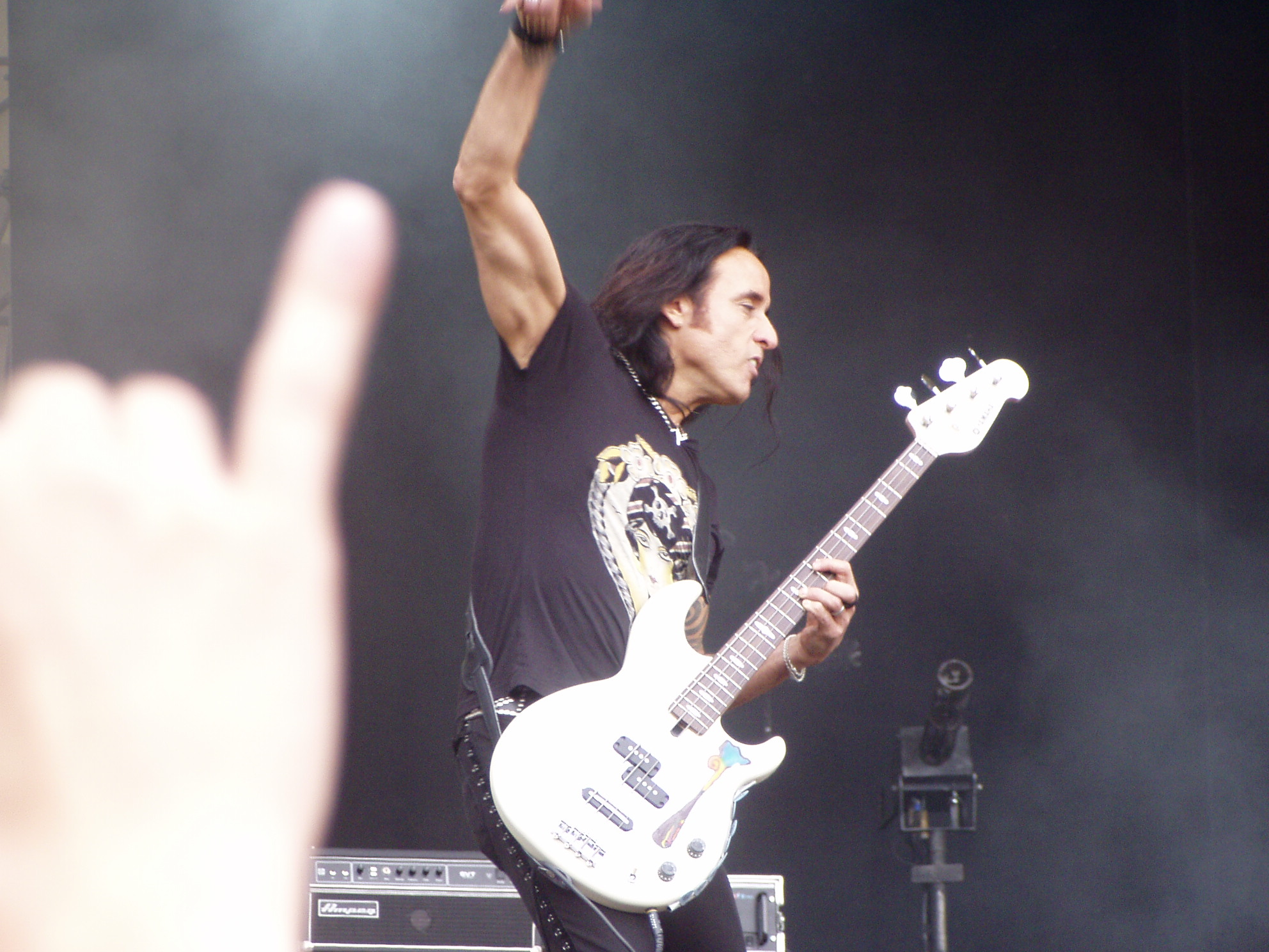 Bassist Marco Mendoza. I Thin Lizzy al Gods of Metal 2007